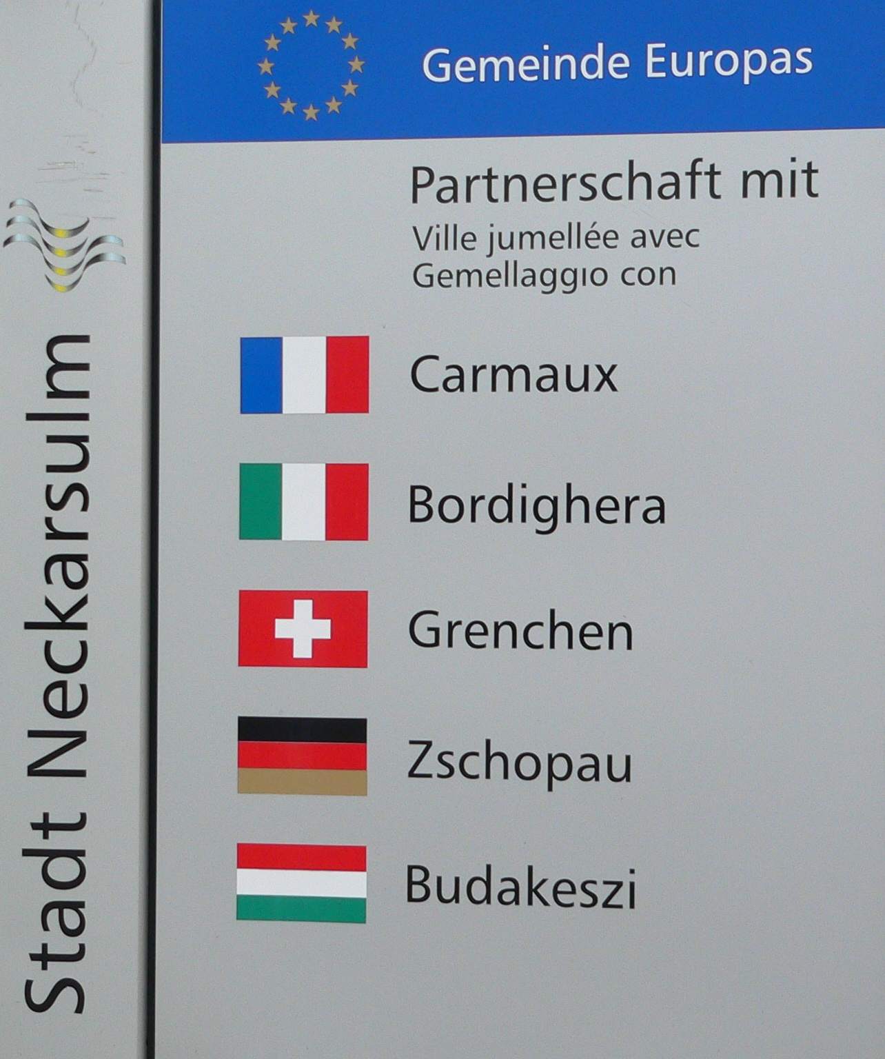 Twin towns of Neckarsulm